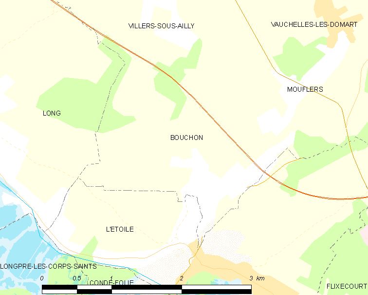 Map of French municipality Bouchon